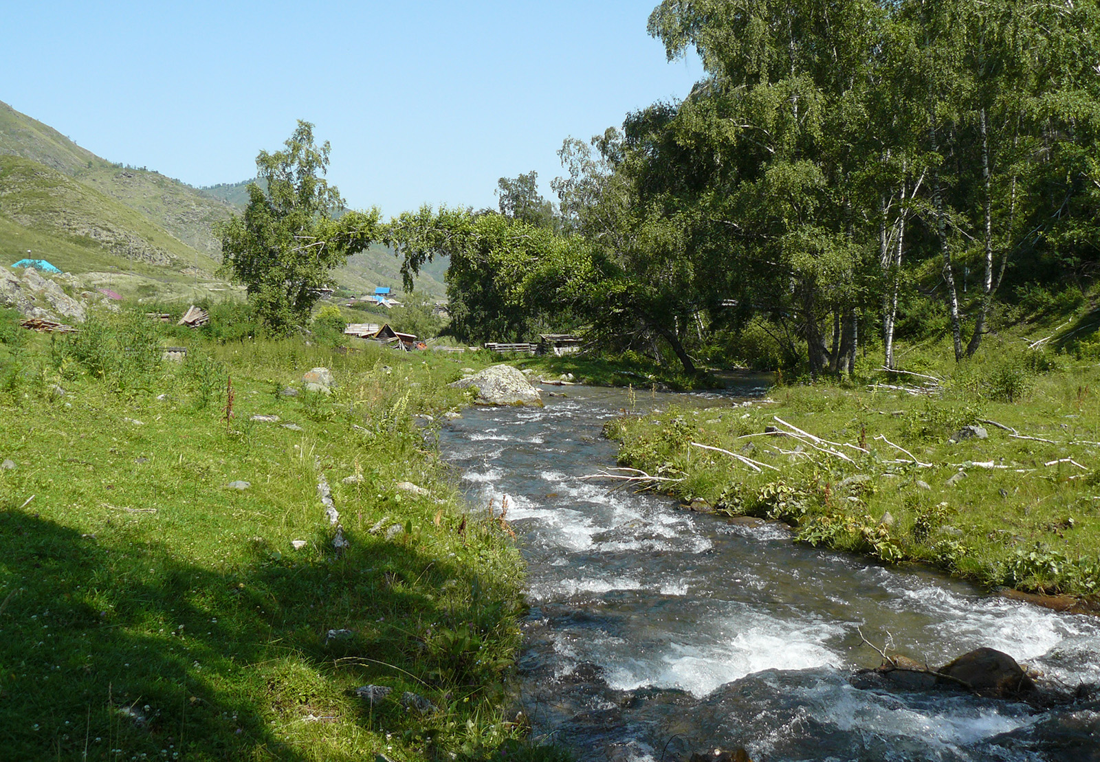 Oroktoy river near the village Oroktoy